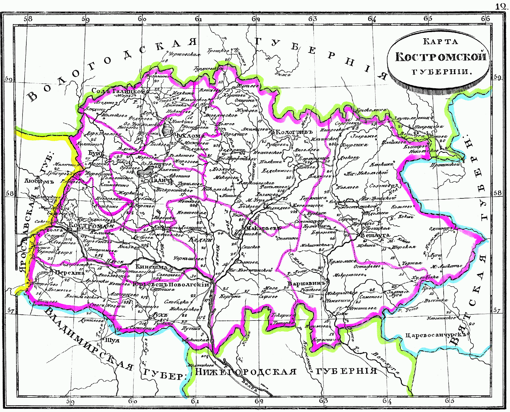 Map of Kostroma Governorate, 1835